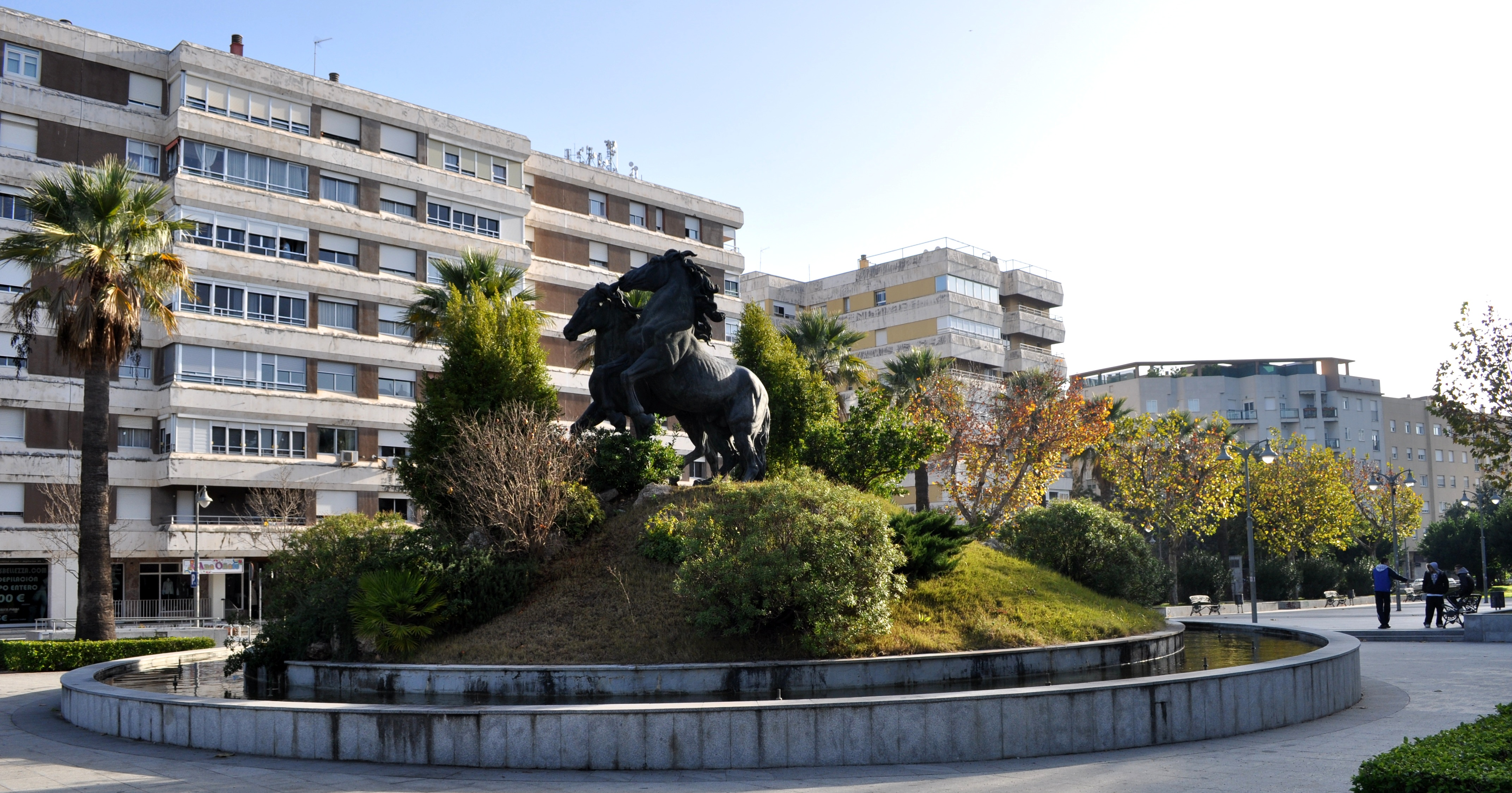 Horses Square, Jerez de la Frontera